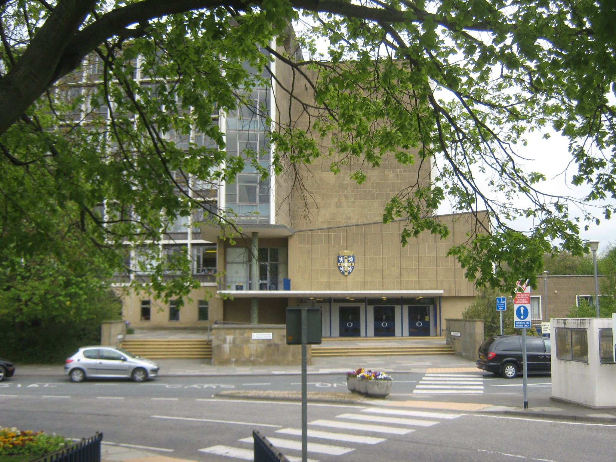 Main Entrance County Hall Durham City